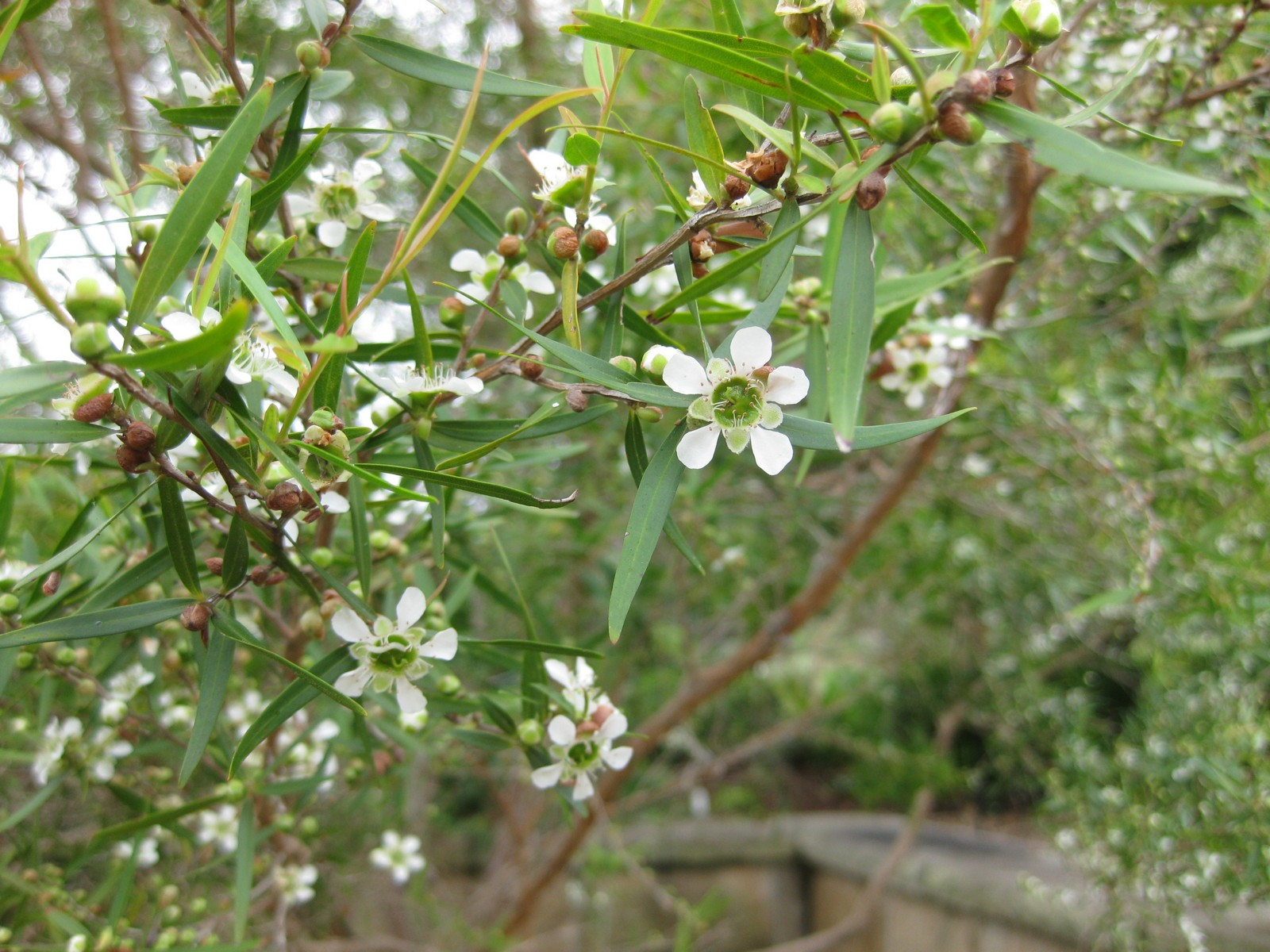 Photographed at the Royal Botanic Gardens Sydney (Australia) in January